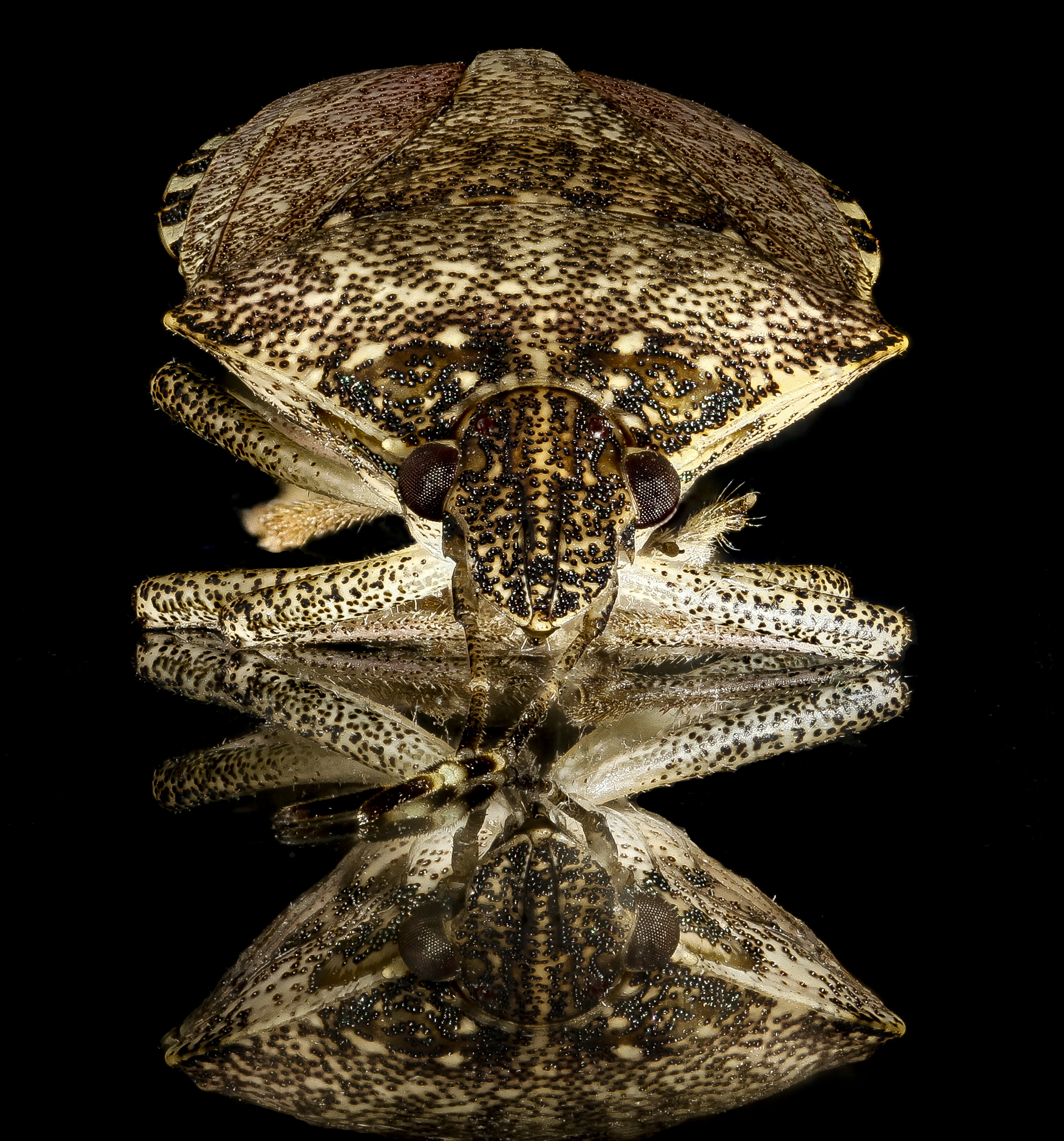 Look closely at the stinkbugs in your house...there is a great deal of beauty there. Halyomorpha halys